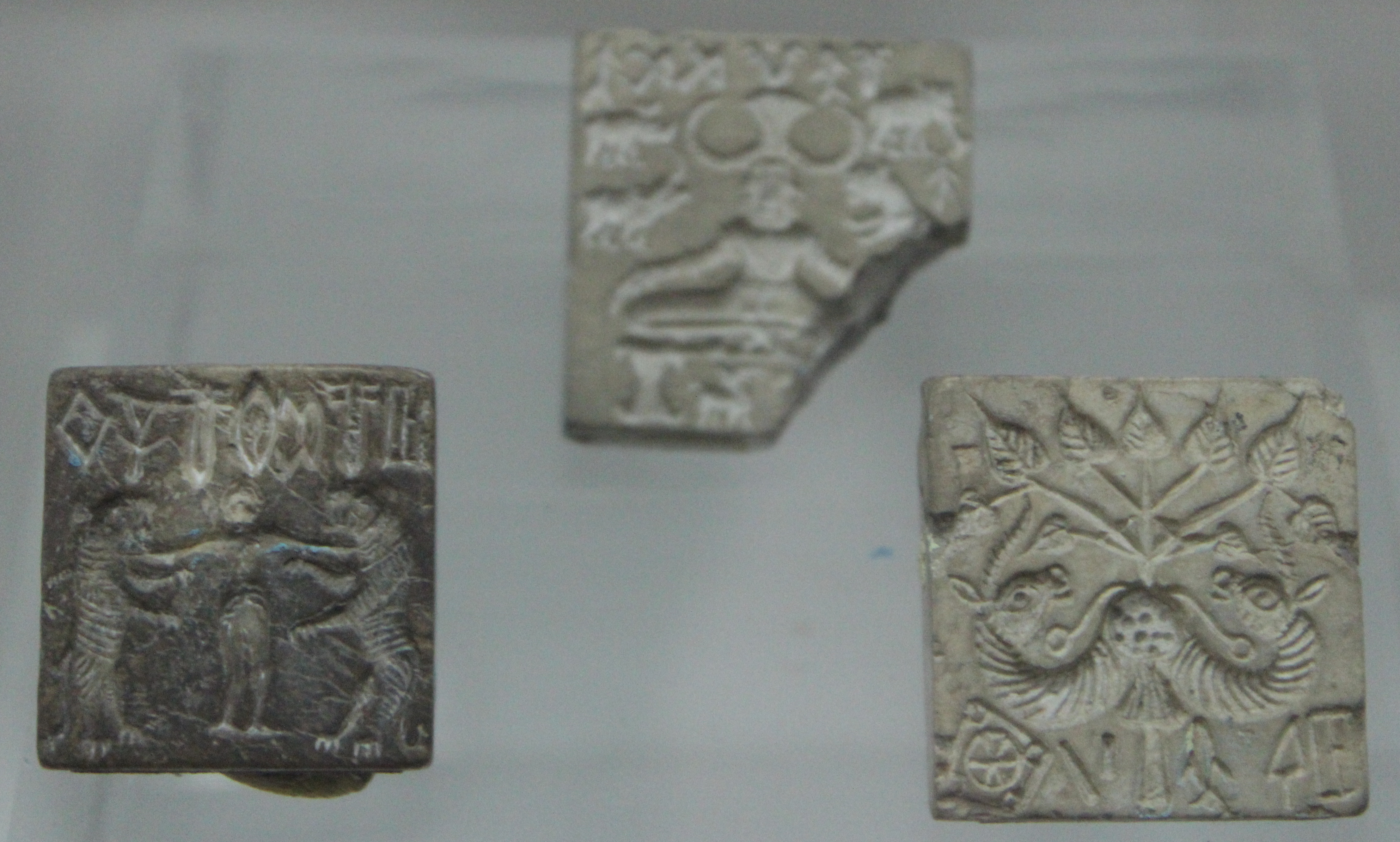 Some Seals of the Harappan Civilization on display in the National Museum